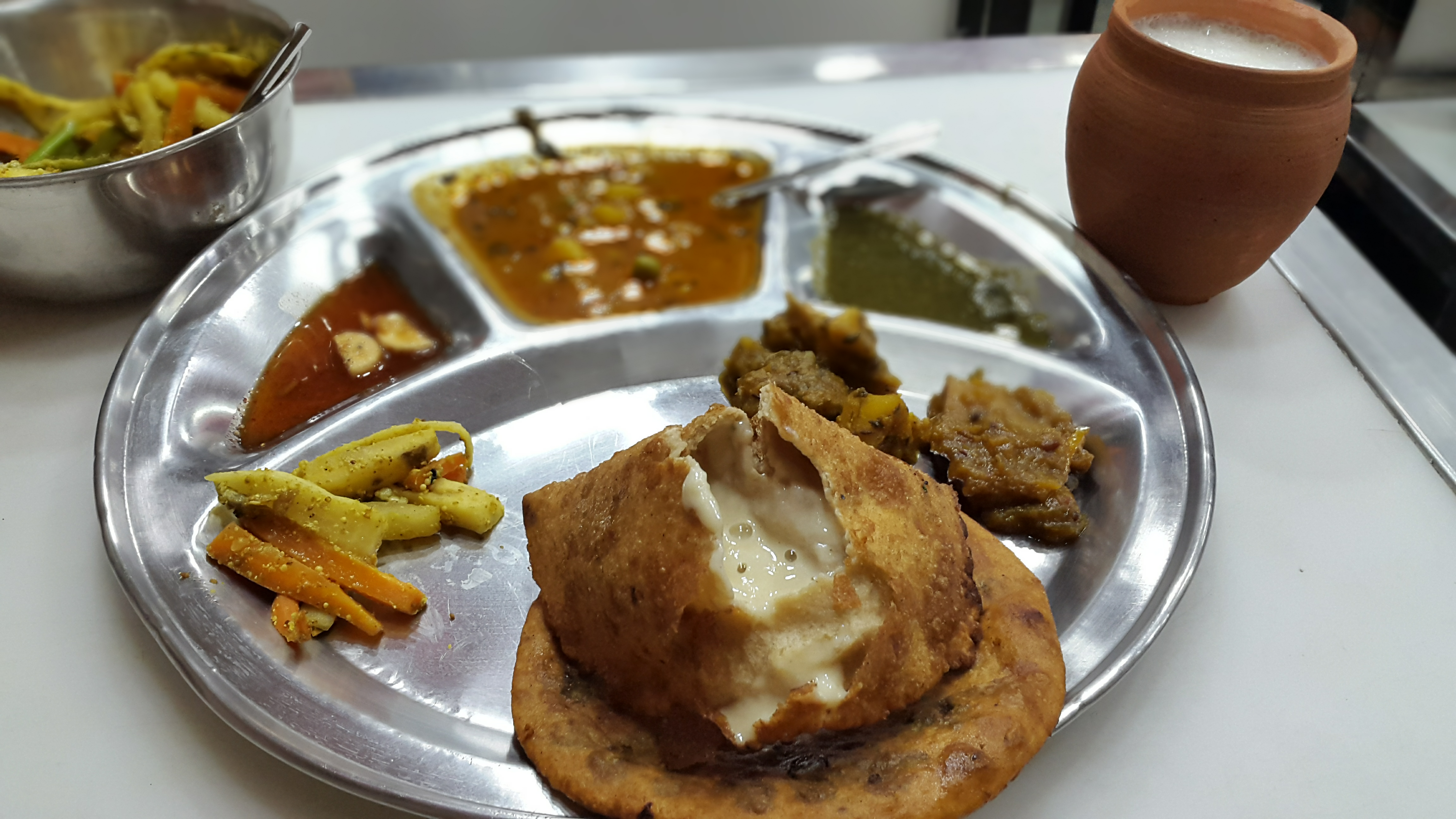 Rabdi wala Parantha, paranthe wali gali, chandni chowk, delhi